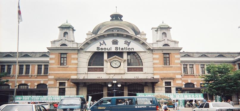 Seoul_station (OLD)